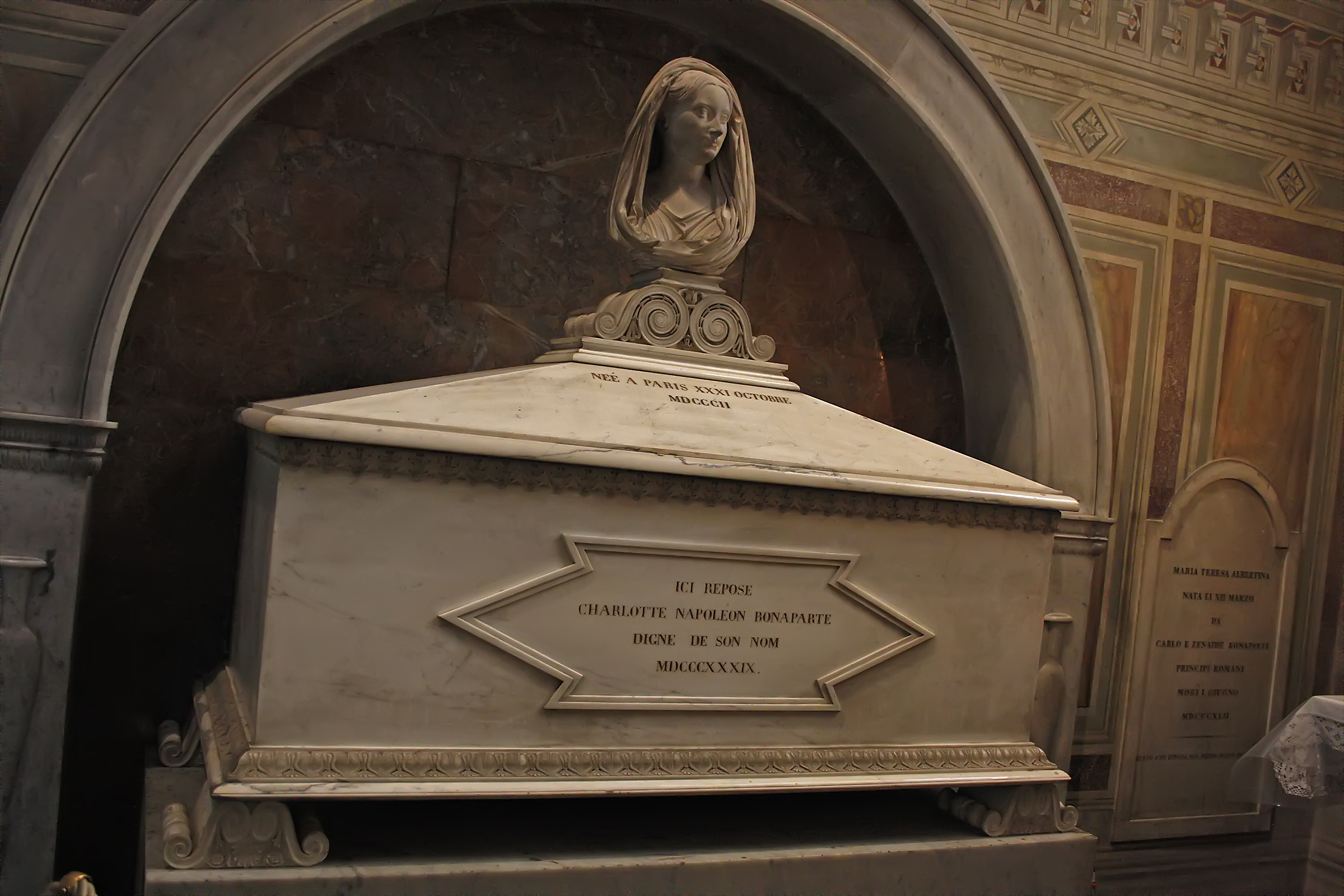 Tomb of Charlotte Bonaparte located in the Basilica San Croce in Florence, Italy.